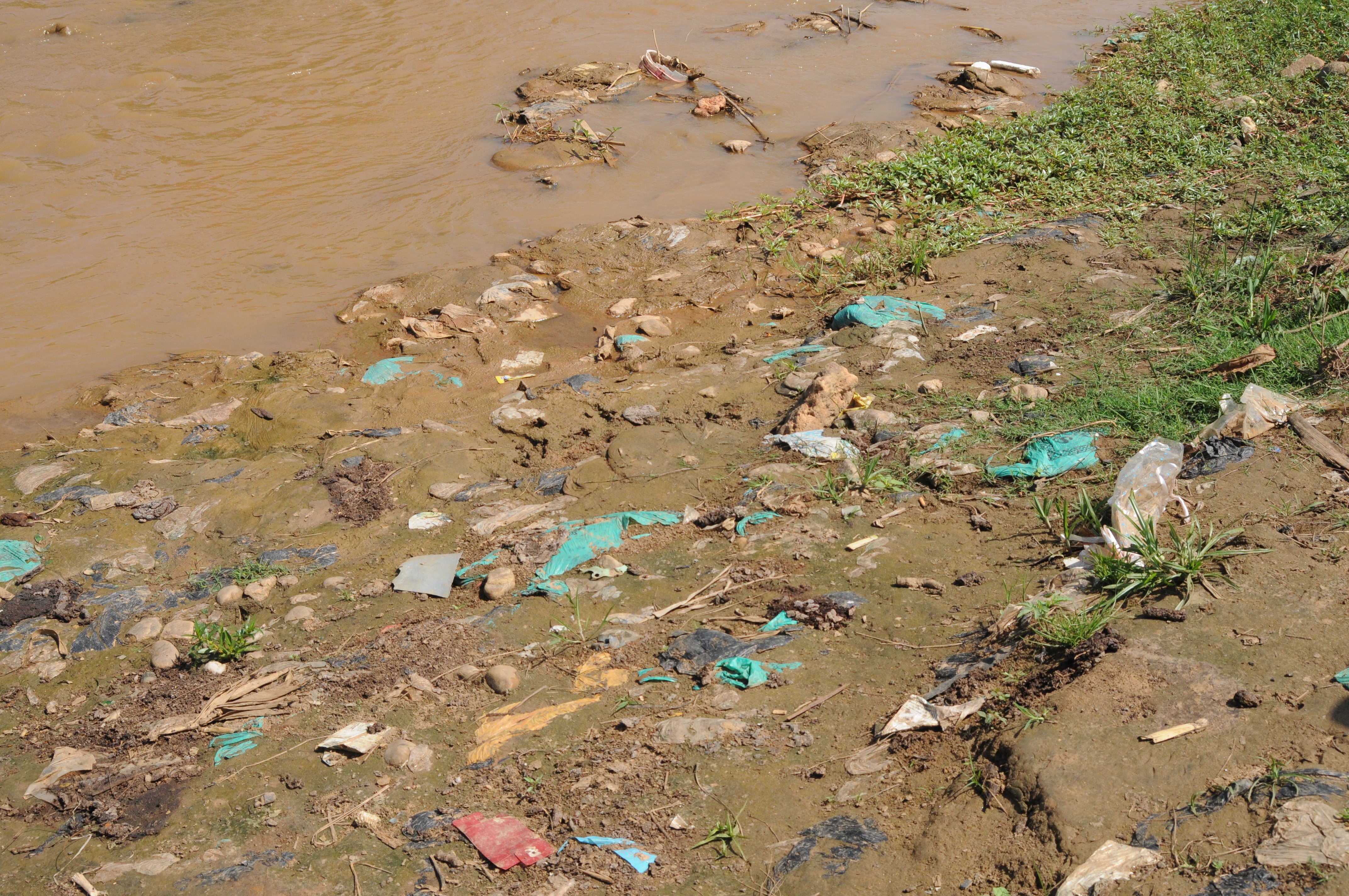 Burundi - Assainissement à Bujumbura / Sanitation in Bujumbura